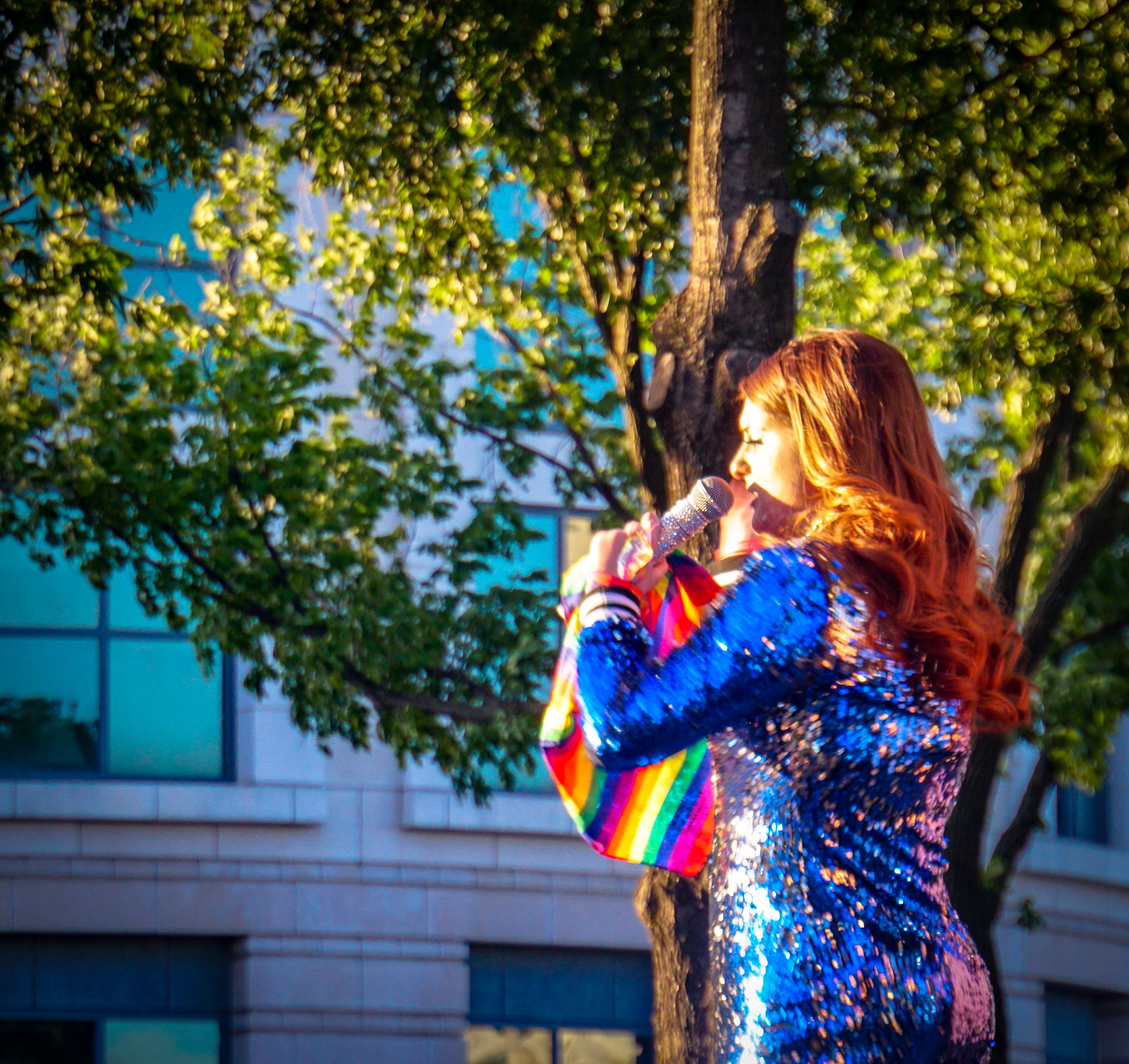 Meghan Trainor performs at Capital Pride, Washington, DC USA